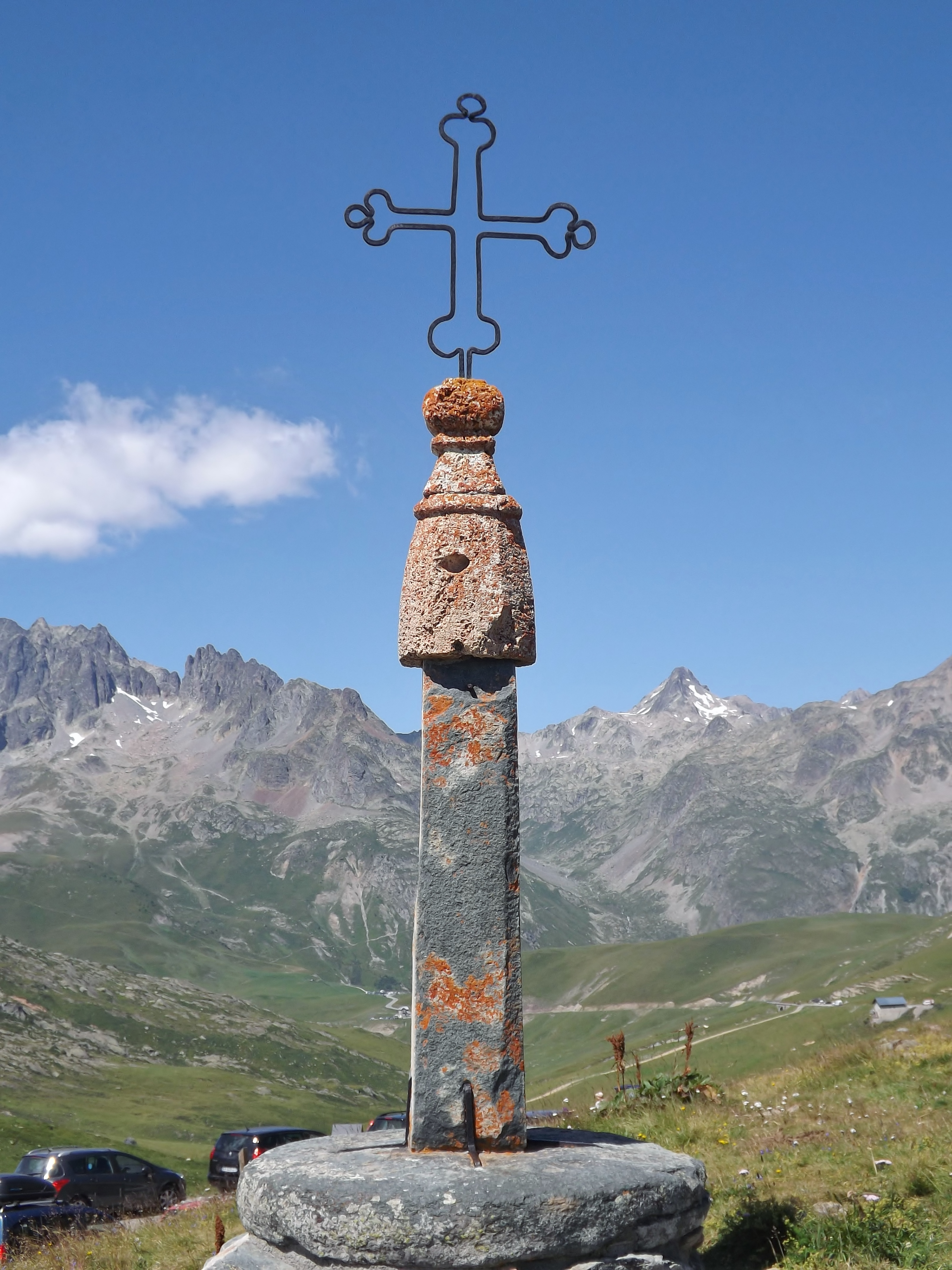 Metallic cross of the col de la Croix de Fer pass (2 067 meters high), in Savoie, France.